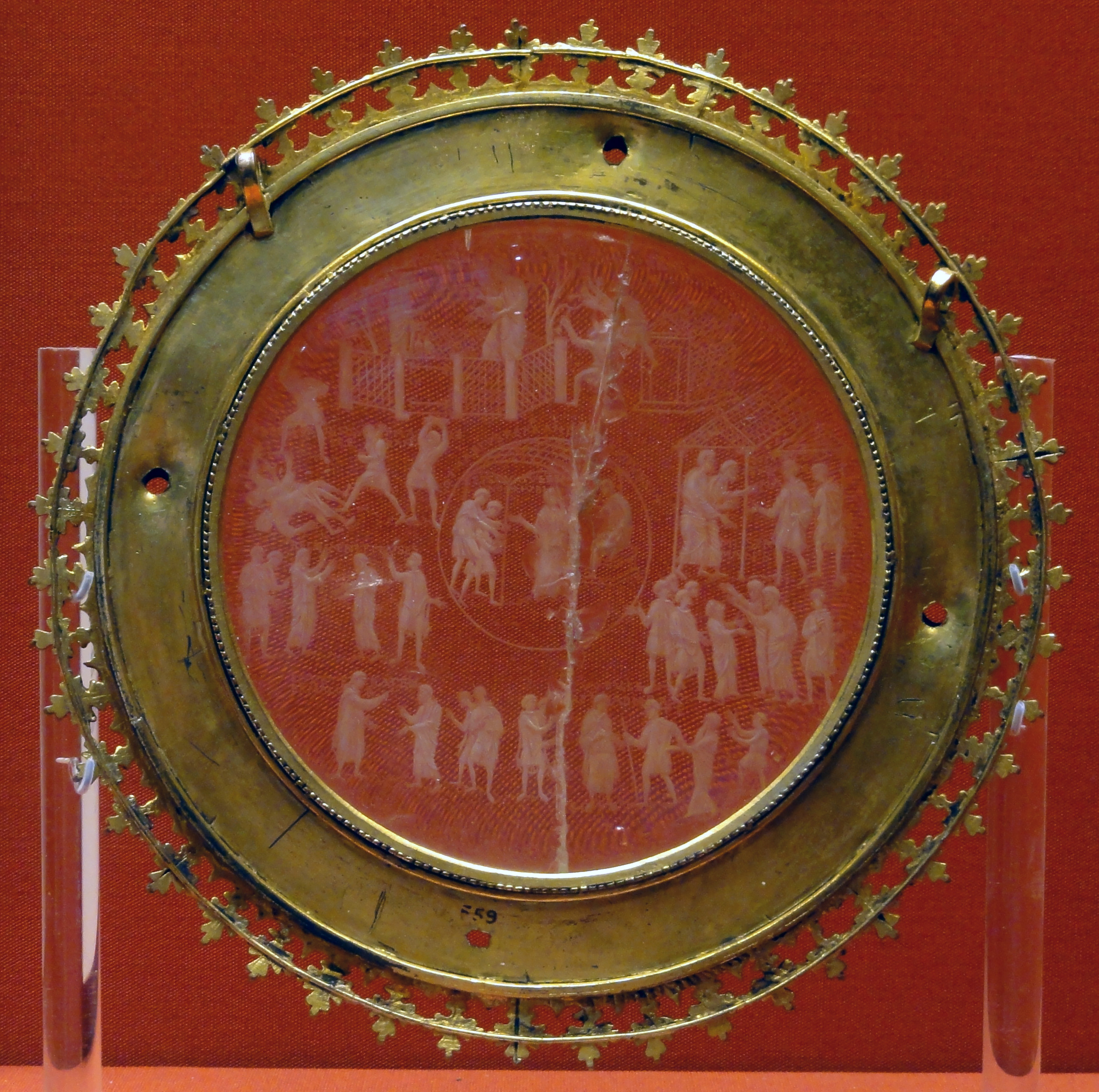 See below